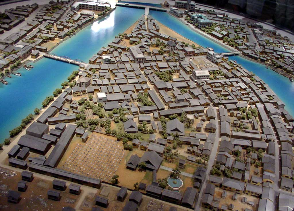 Small-scale recreation of the Nakajima area in Hiroshima before the atomic bombing on August 6, 1945; Hiroshima Peace Memorial Museum